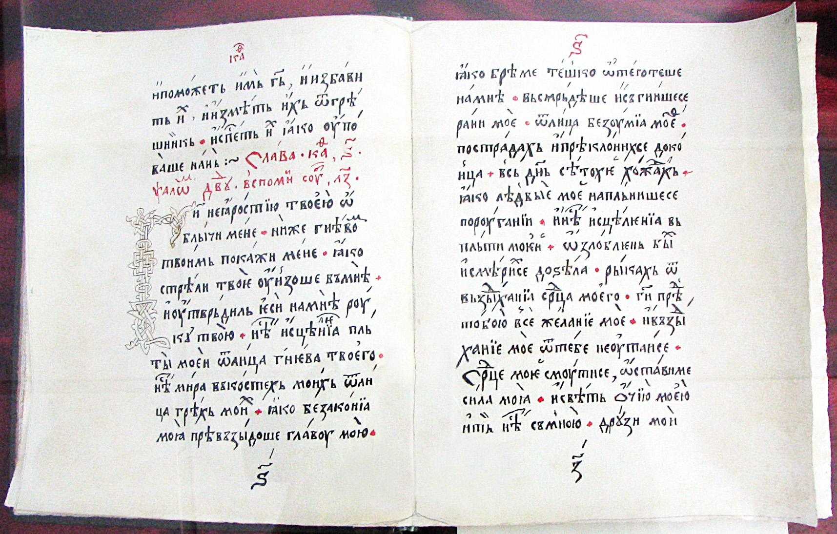 Psalter, Rača monastery